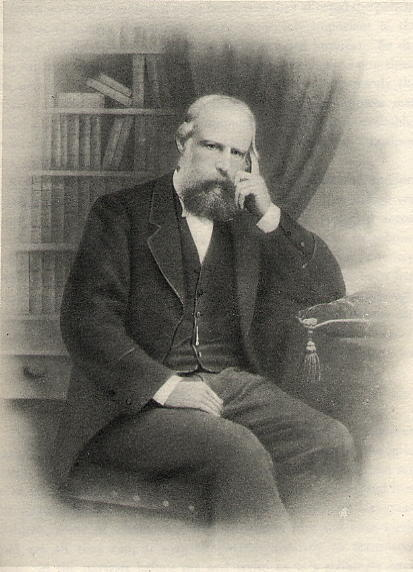 Photographic Portrait of Elisha Smith Robinson